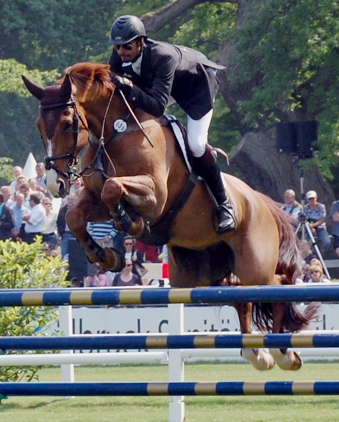 Qatari rider Sheikh Ali bin Khalid Al Thani with Adolfo FRH, "Championat von Hamburg", CSI 5* Hamburg 2011